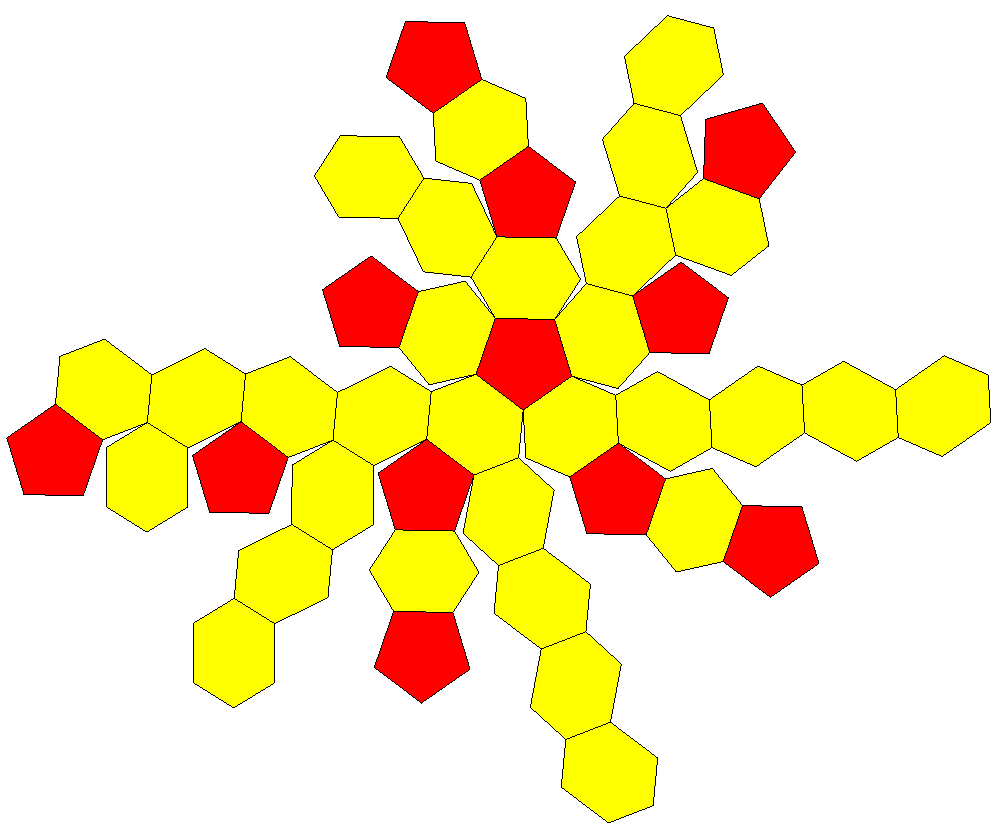 Two color Truncated_rhombic_triacontahedron net, with pentagon and flattened hexagon faces.